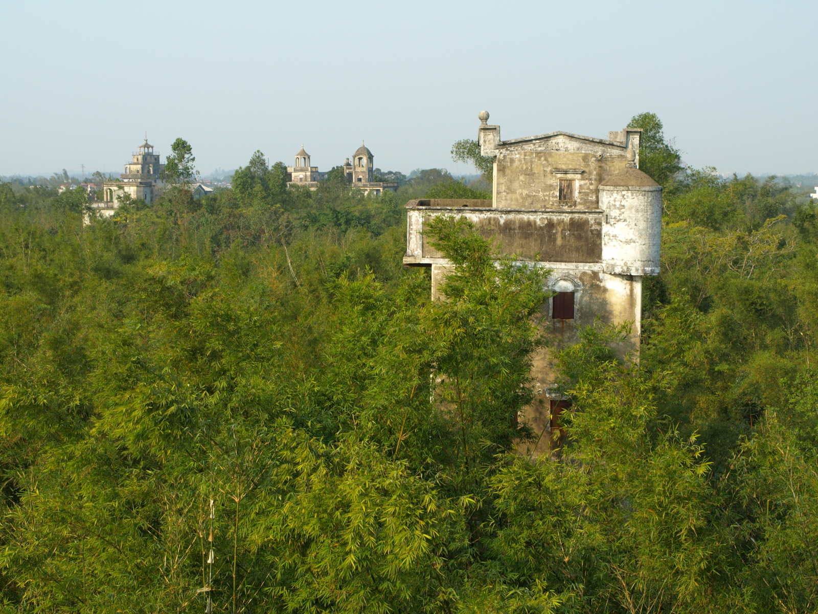 Majianlong Village Cluster in Baihe, Kaiping, China